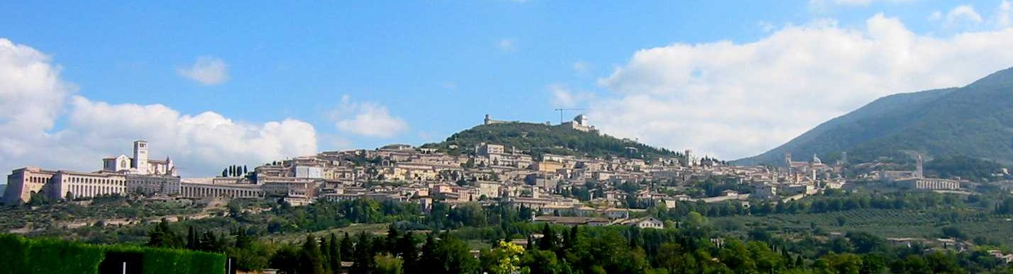 Panorama of Assisi, Italy